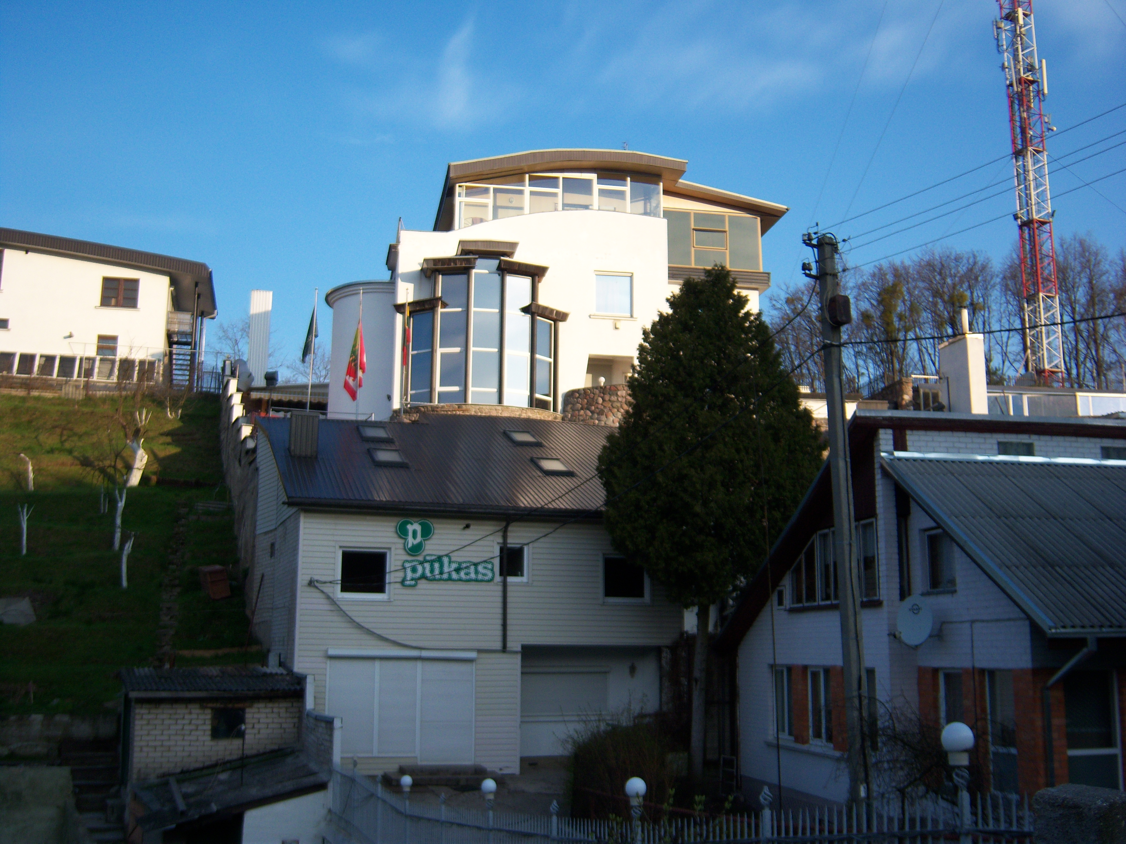 „Pūkas“ in Kaunas, Lithuania